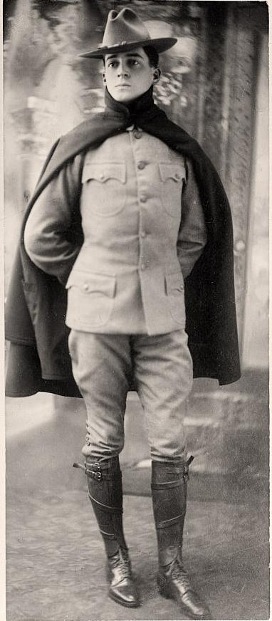 Douglas MacArthur